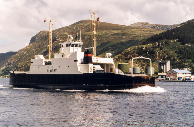 MF Florøy near Måløy in 1999.